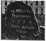 This is a picture of the Peleg Arnold milestone in Union Village in North Smithfield, Rhode Island from Edward Field, State of Rhode Island and Providence Plantations at the End of the Nineteenth Century, (Mason Pub. Co., RI: 1902), 647. [1]